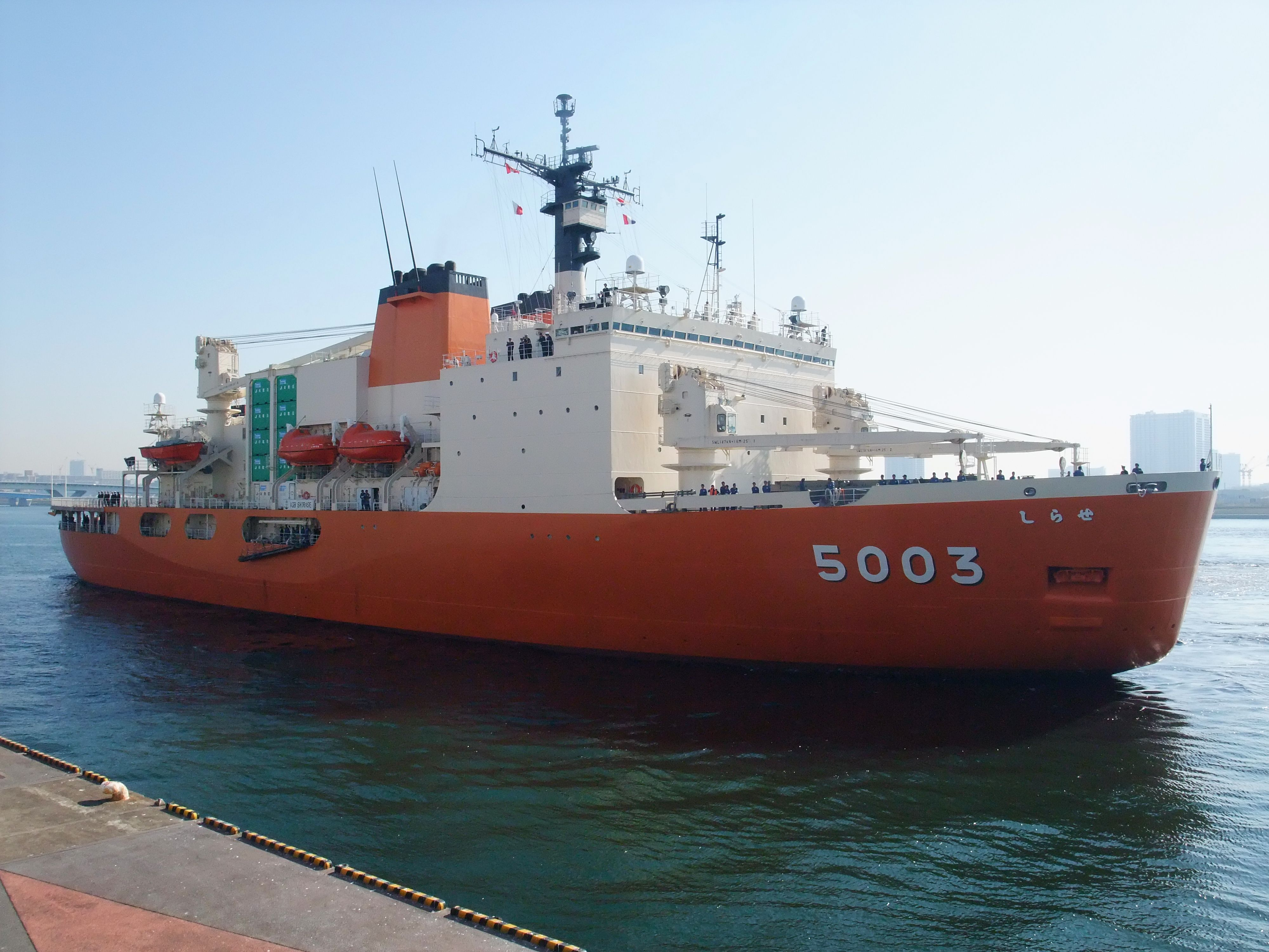 Japanese Icebreaker Shirase (AGB-5003)